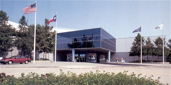 Front entrance of Space Center Houston (SCH), the official visitors center for NASA's Johnson Space Center.